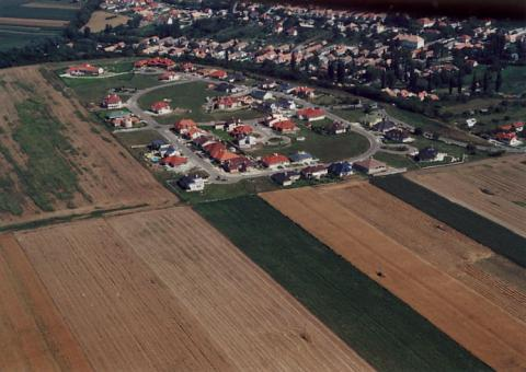 Budajenő West, Hungary, aerial photography. Hilltop Estates